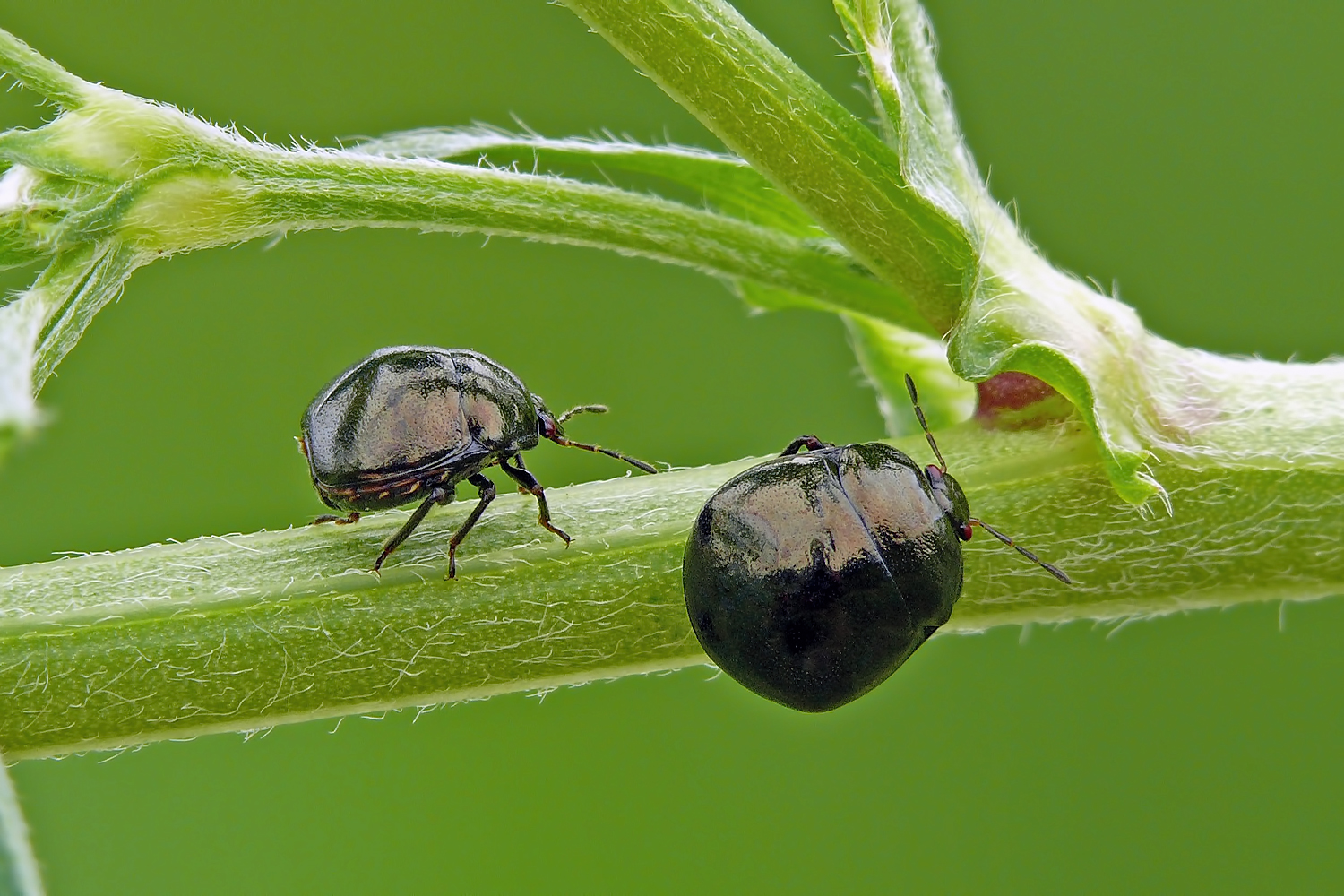 Coptosomatid bug (Coptosoma scutellatum). Photo taken in Dzukija National park in Lithuania.